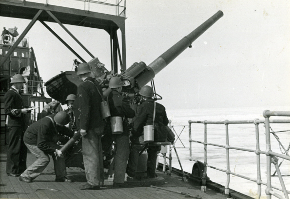 7.5 cm gun on board the Swedish Icebreaker Ymer. During World War 2 the ship was equipped with four of these guns.